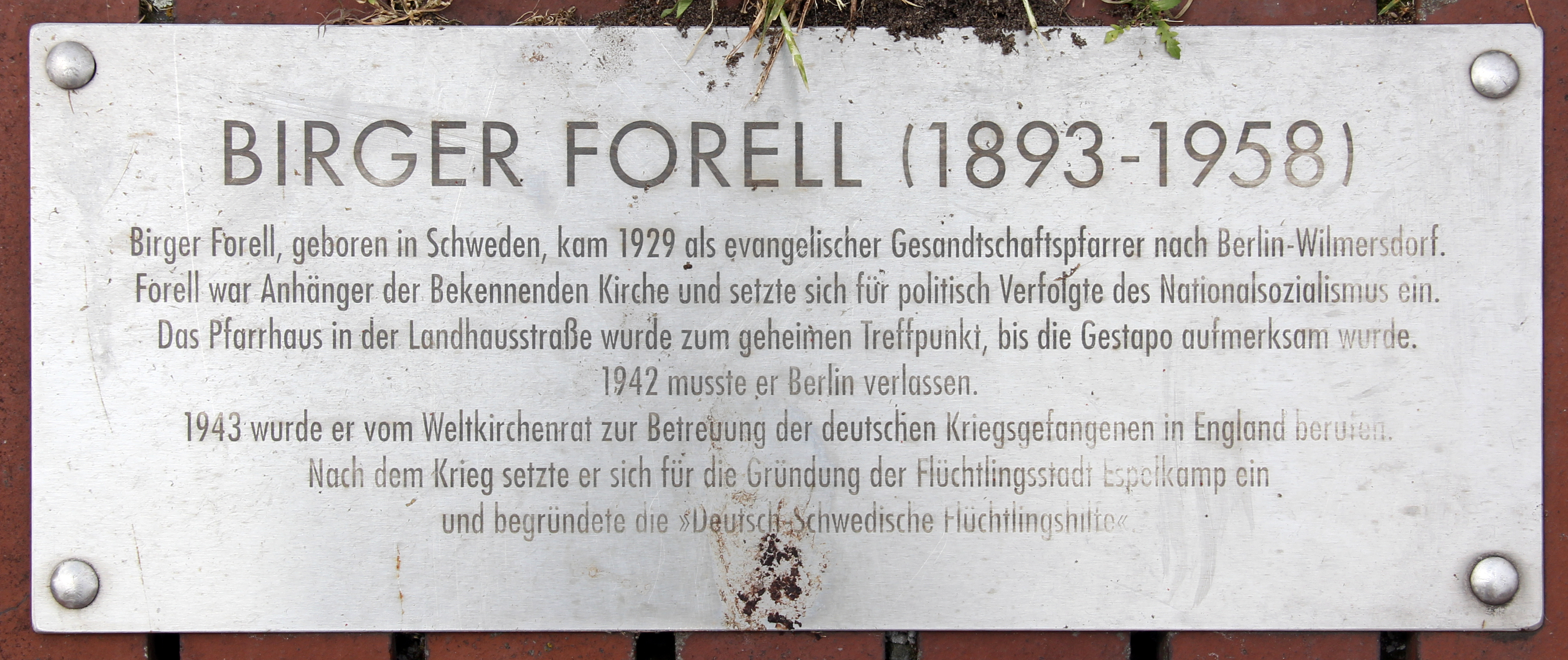 Memorial plaque, Birger Forell, Birger-Forell-Platz, Berlin-Wilmersdorf, Germany